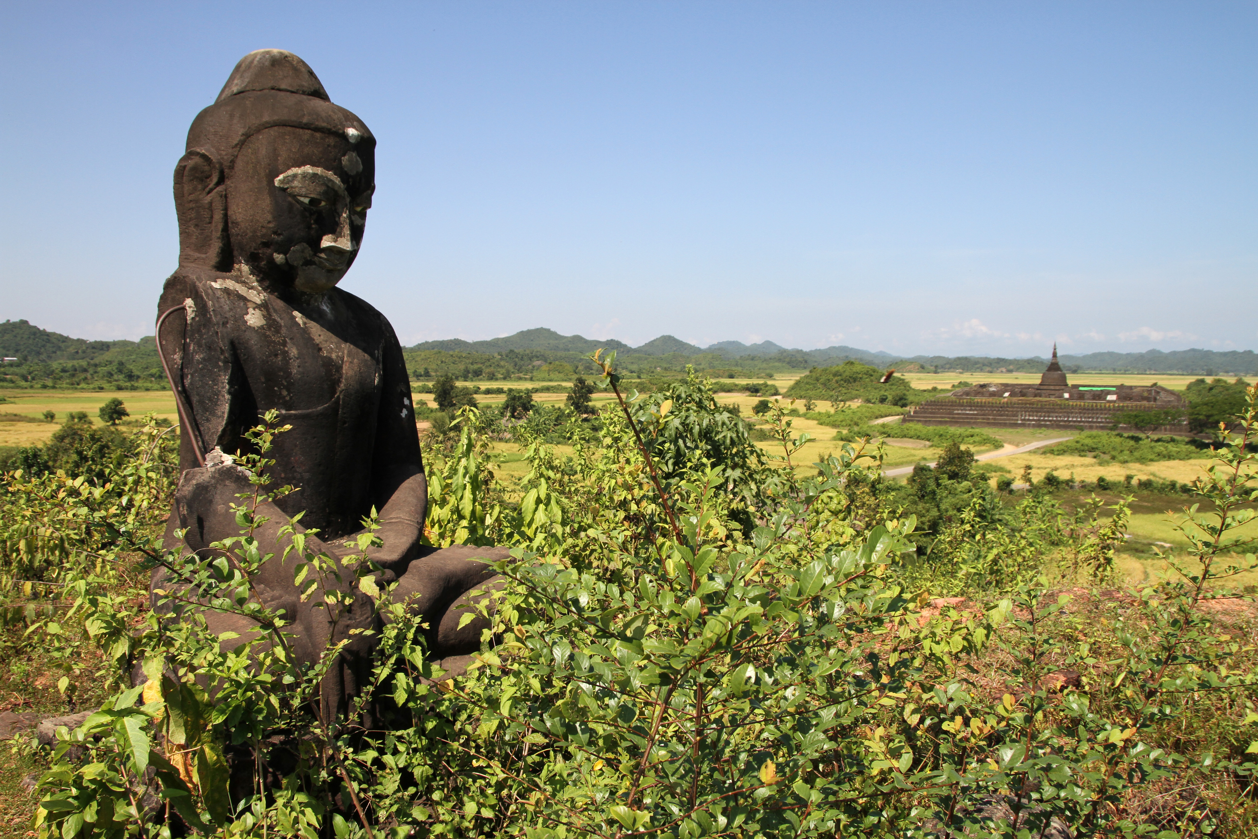 Pizi Phara Pagoda in Mrauk U, old capital in the Rakhine State in Myanmar.